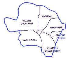 Canton de Pont de Cheruy